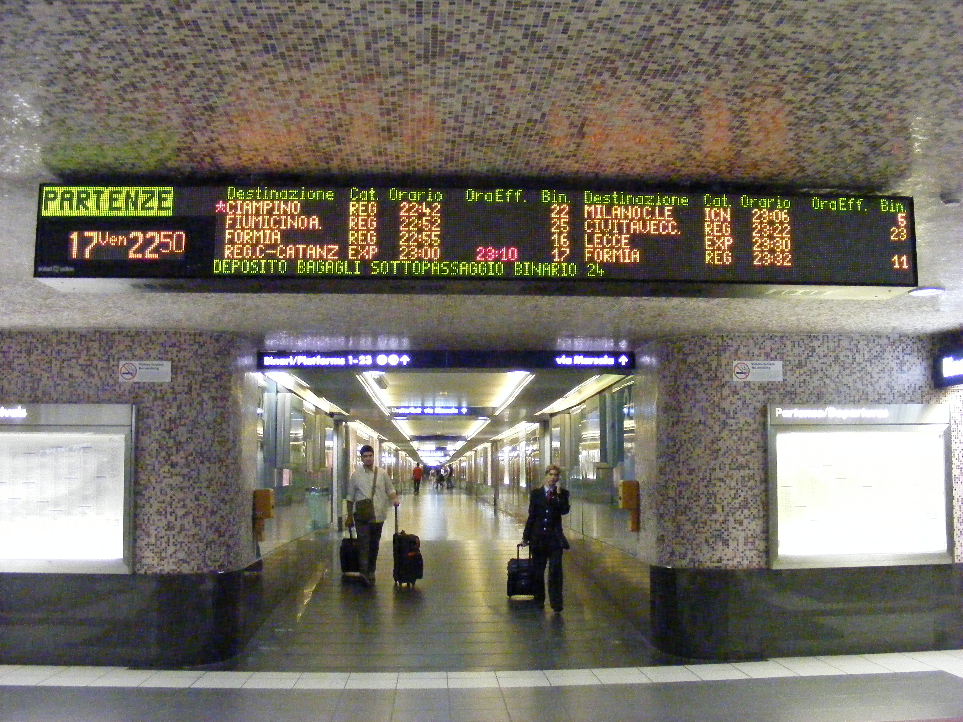 Electronic departure sign at Stazione Termini